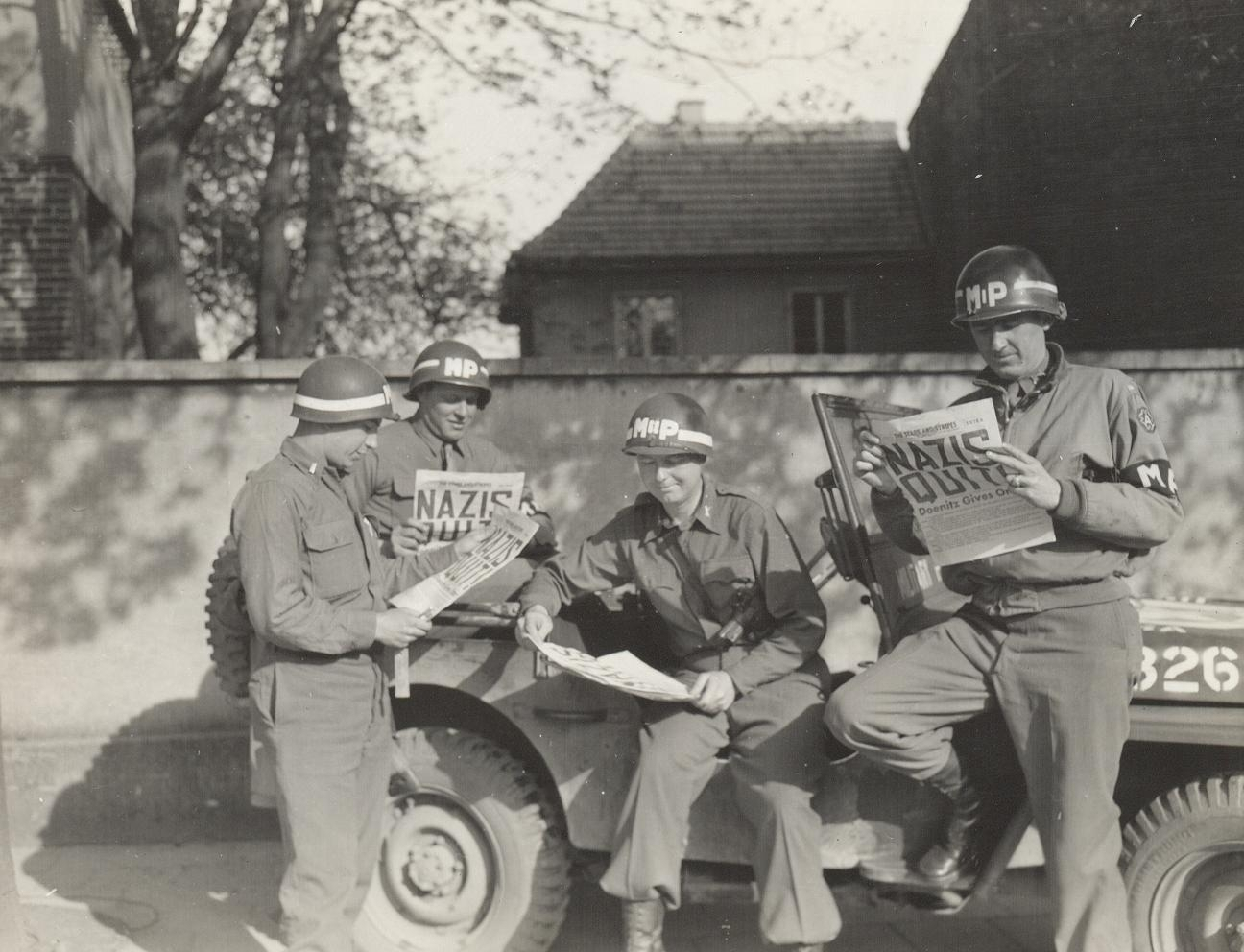 Four MPs take a break along a German road to read in the "Stars and Stripes" newspaper about the Nazi surrender.